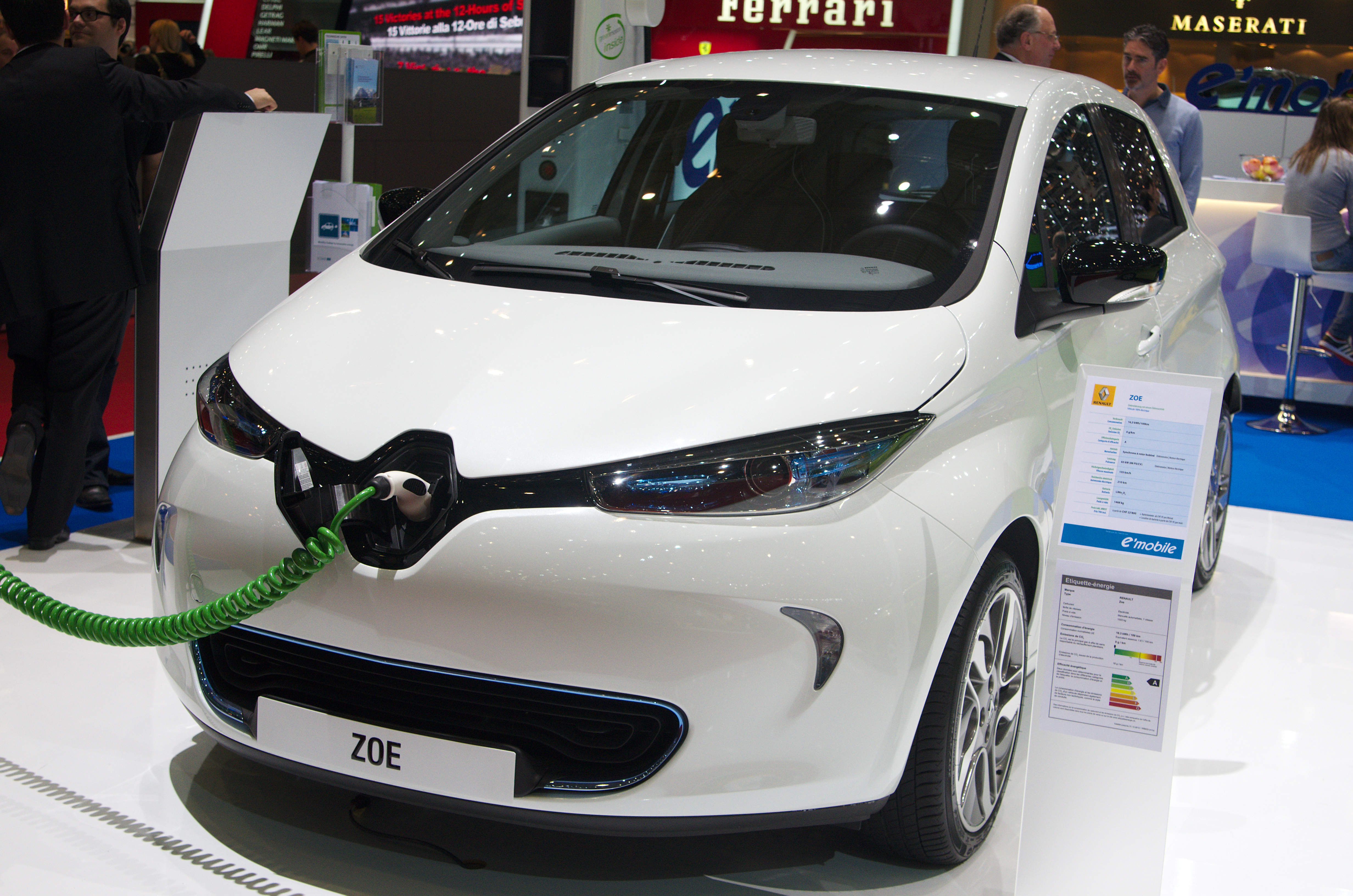 Geneva MotorShow 2013 - Renault Zoe charging